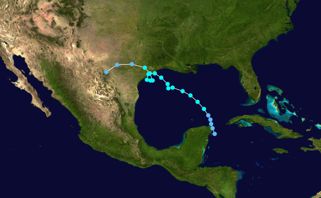 Tropical Storm Delia (1973) track. Uses the color scheme from the Saffir-Simpson Hurricane Scale.